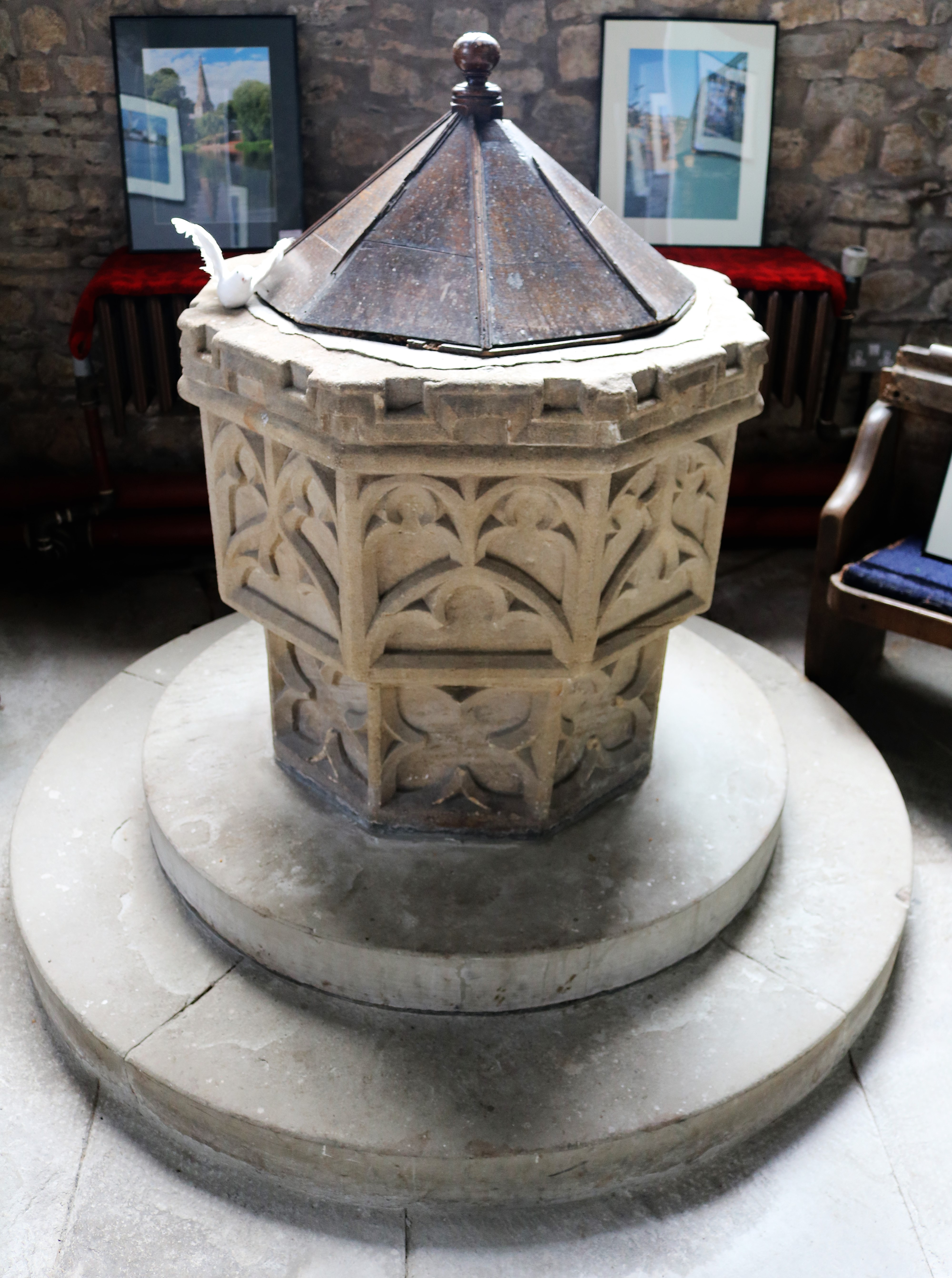 The font at St James' Church in Normanton on Soar.